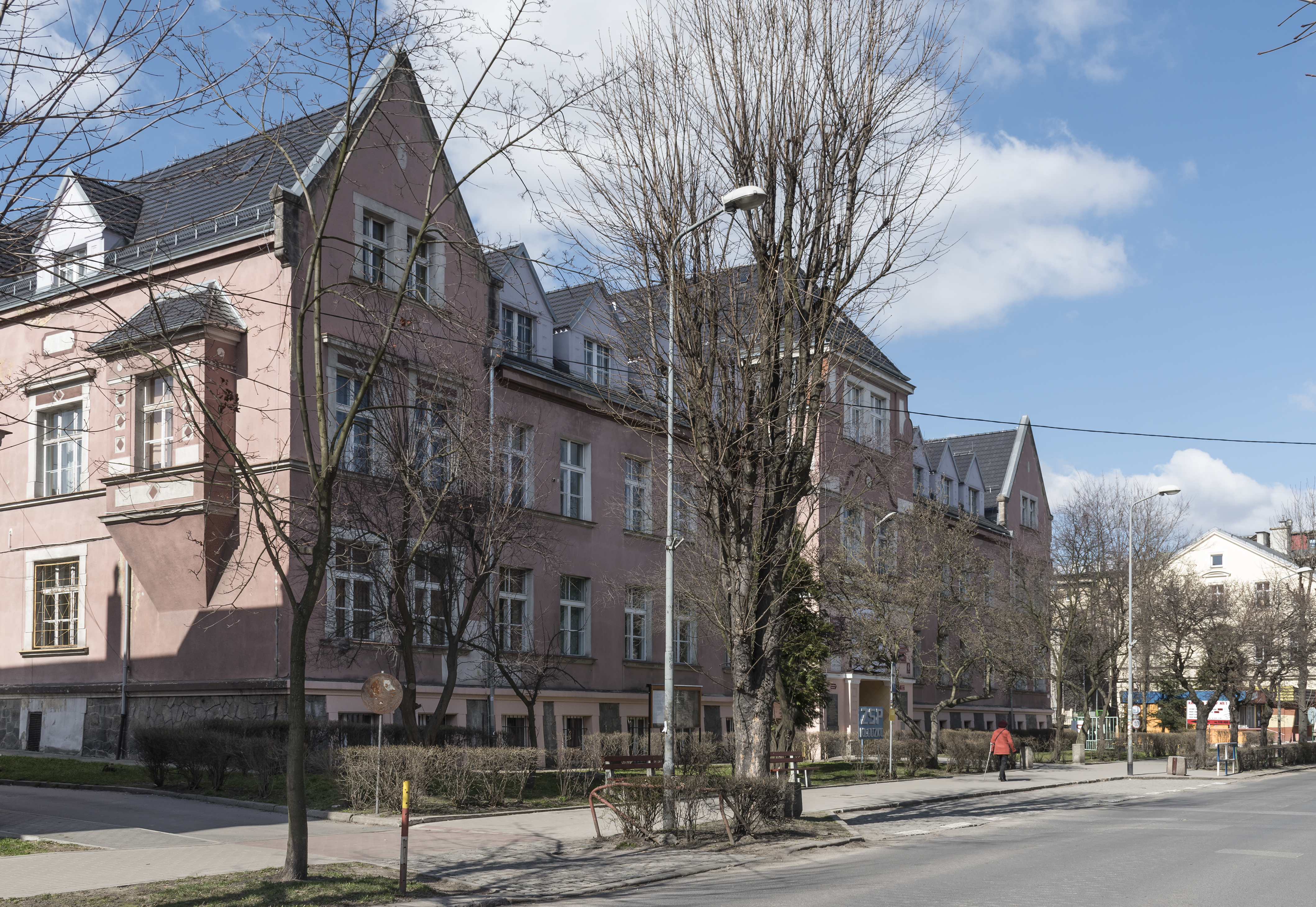 Upper Secondary School No. 1 in Kłodzko